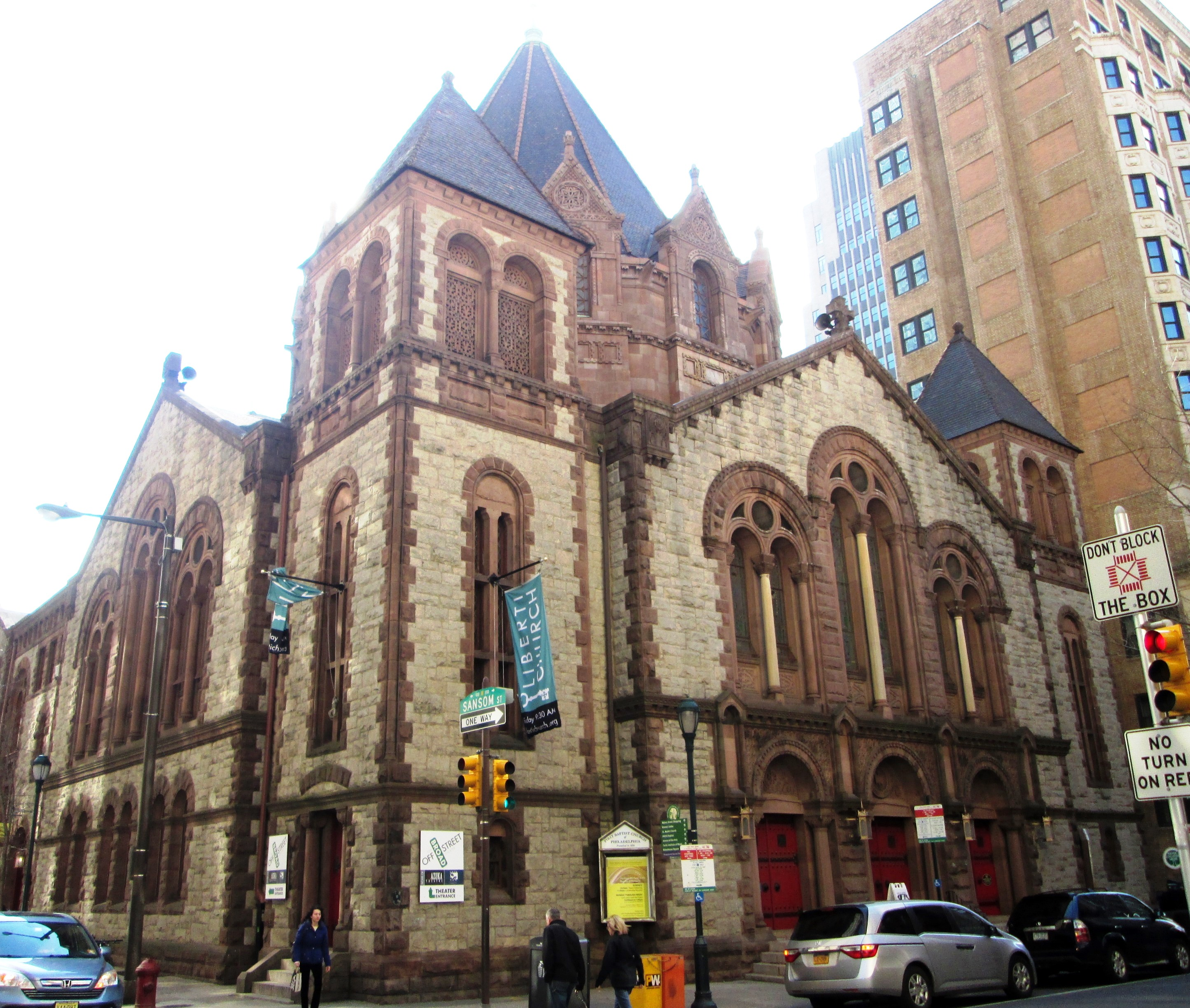 The First Baptist Church of Philadelphia, located at 123 South 17th Street at Sansom Street in the Center City neighborhood, was built in 1898-99 and was designed by Edgar Seeler in the Romanesque Revival style. The congregation was founded in 1698, and occupied at least five buildings before the current one. The building is also the location of the "Off Broad Street Theater", which hosts the Azuka Theatre and the Inis Nua Theatre Company. (Sources: "History at First Baptist", Architecture in Philadelphia: A Guide (MIT Press), keystone and sign on building)